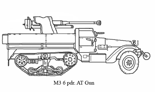 The British 6 pounder gun, mounted on the M3 Half-track.